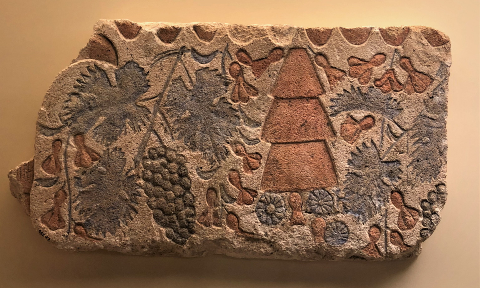 Relief Amarna Period, c. 1350BC. Royal Ontario Museum, Toronto